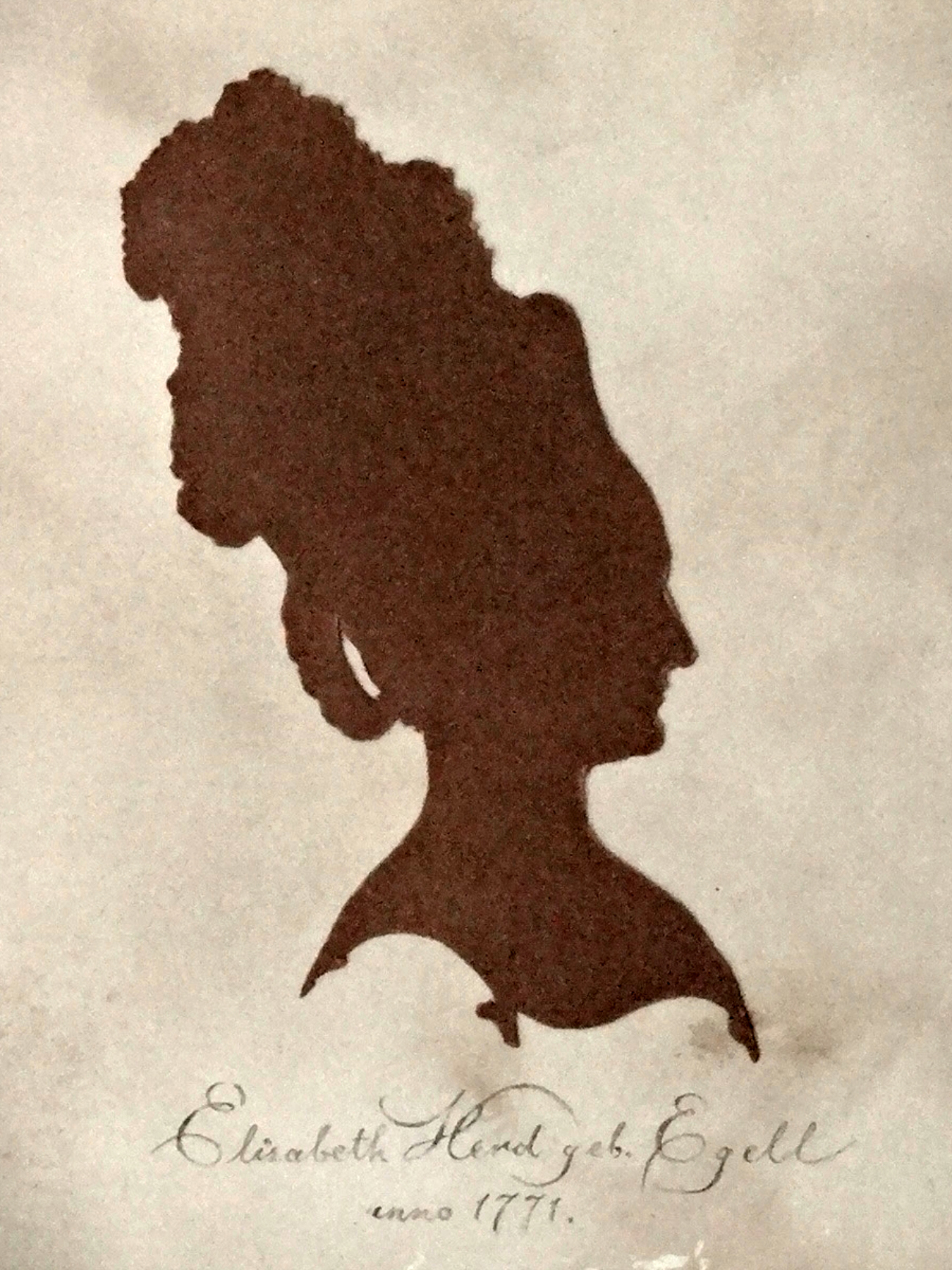 The unrequited love for Elisabeth Herd, wife of legation secretary of Electoral Palatinate Philip Herd, broke Karl Wilhelm Jerusalem's heart. He shot himself in 1772. His suicide was model for the tragic end of Goethe's Werther.